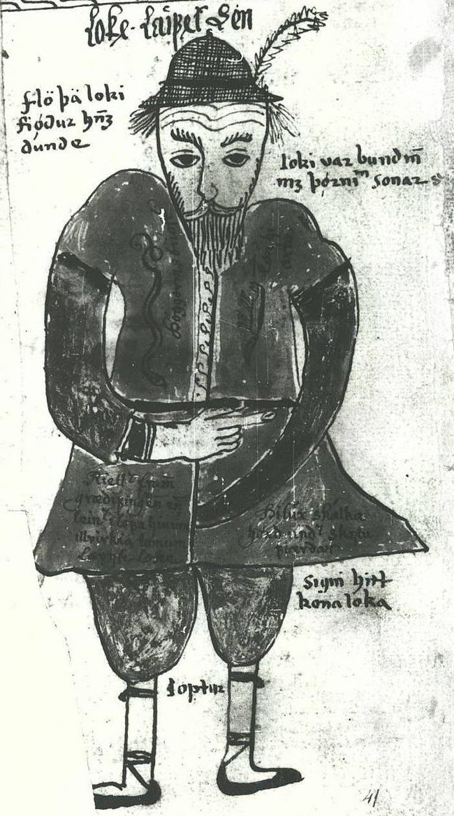 An illustration of the Norse figure Loki, from an Icelandic 17th century manuscript. A scan of a black and white photography.